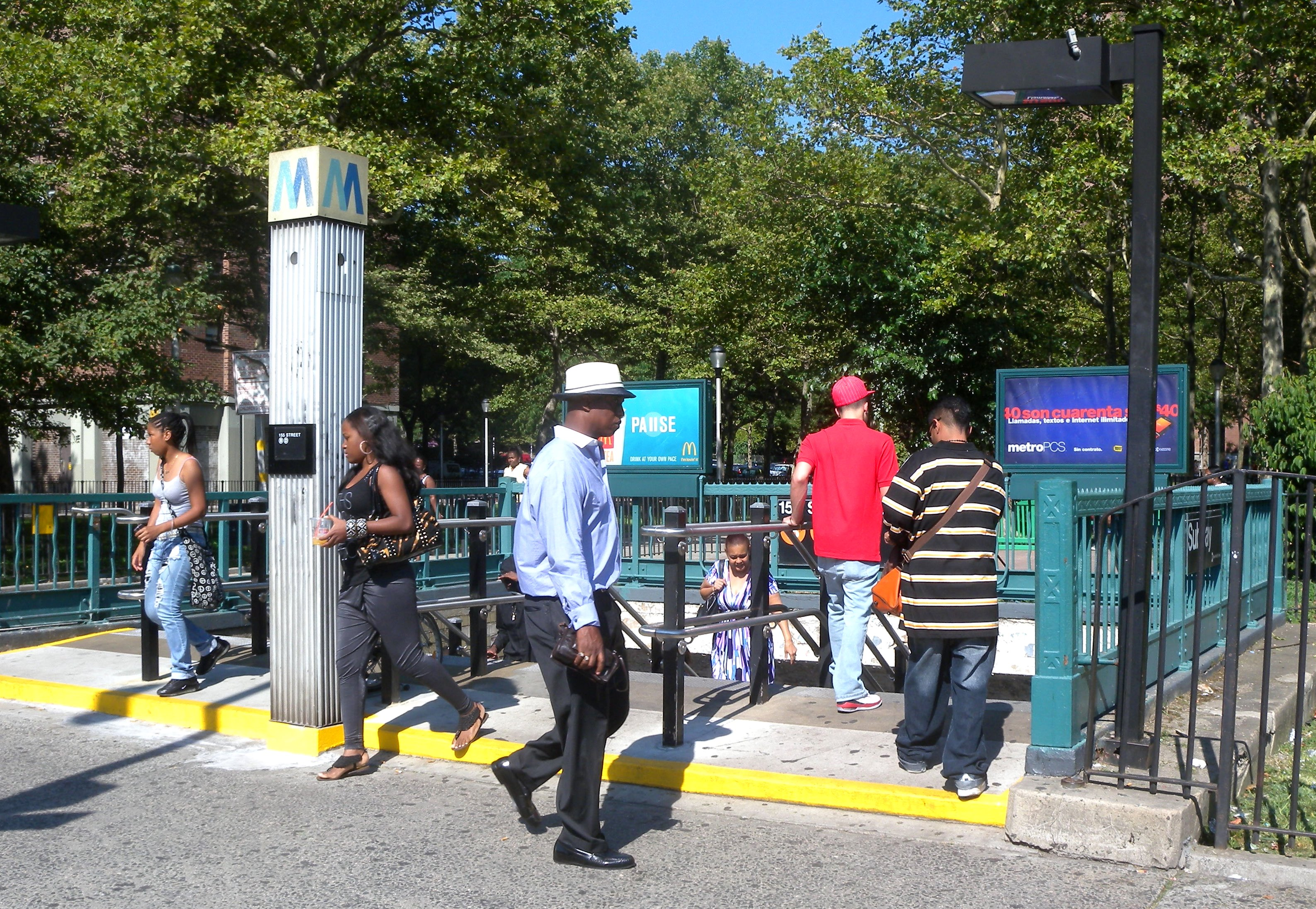 Looking west at station stair on a sunny late morning.